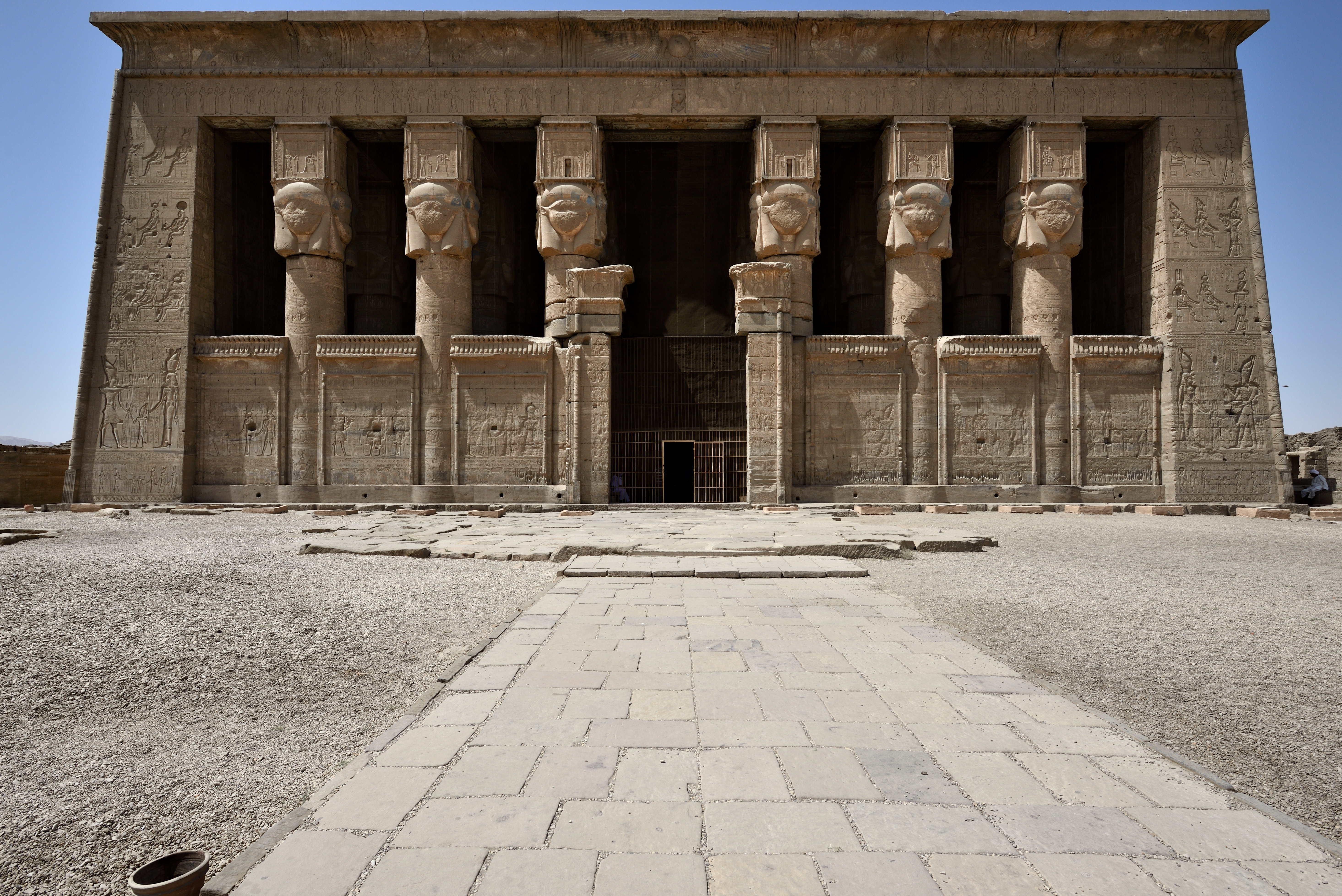 Temple of Hathor at Dendera